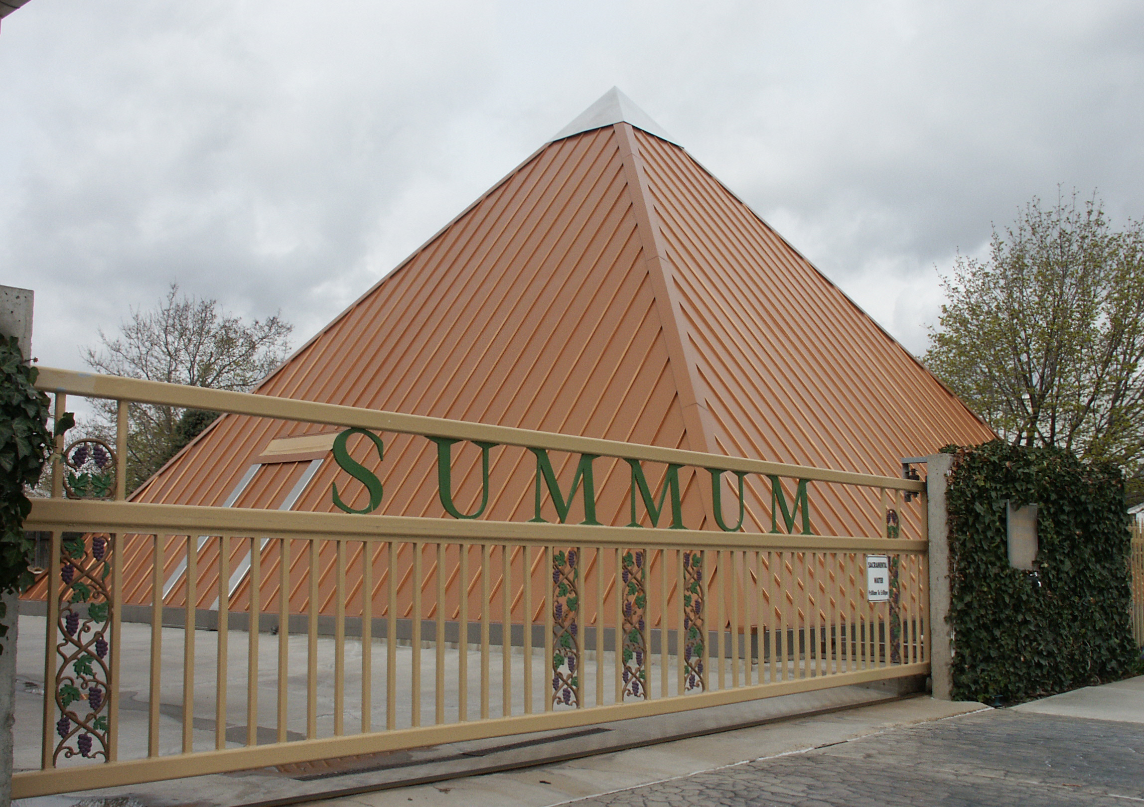 The Summum® Pyramid, located in Salt Lake City, Utah, is 40 feet long at the base and stands 26 feet high. Completed in 1979, it is used for instruction in the Summum philosophy, producing Nectar Publications™, and conducting rites associated with Modern Mummificationsm.